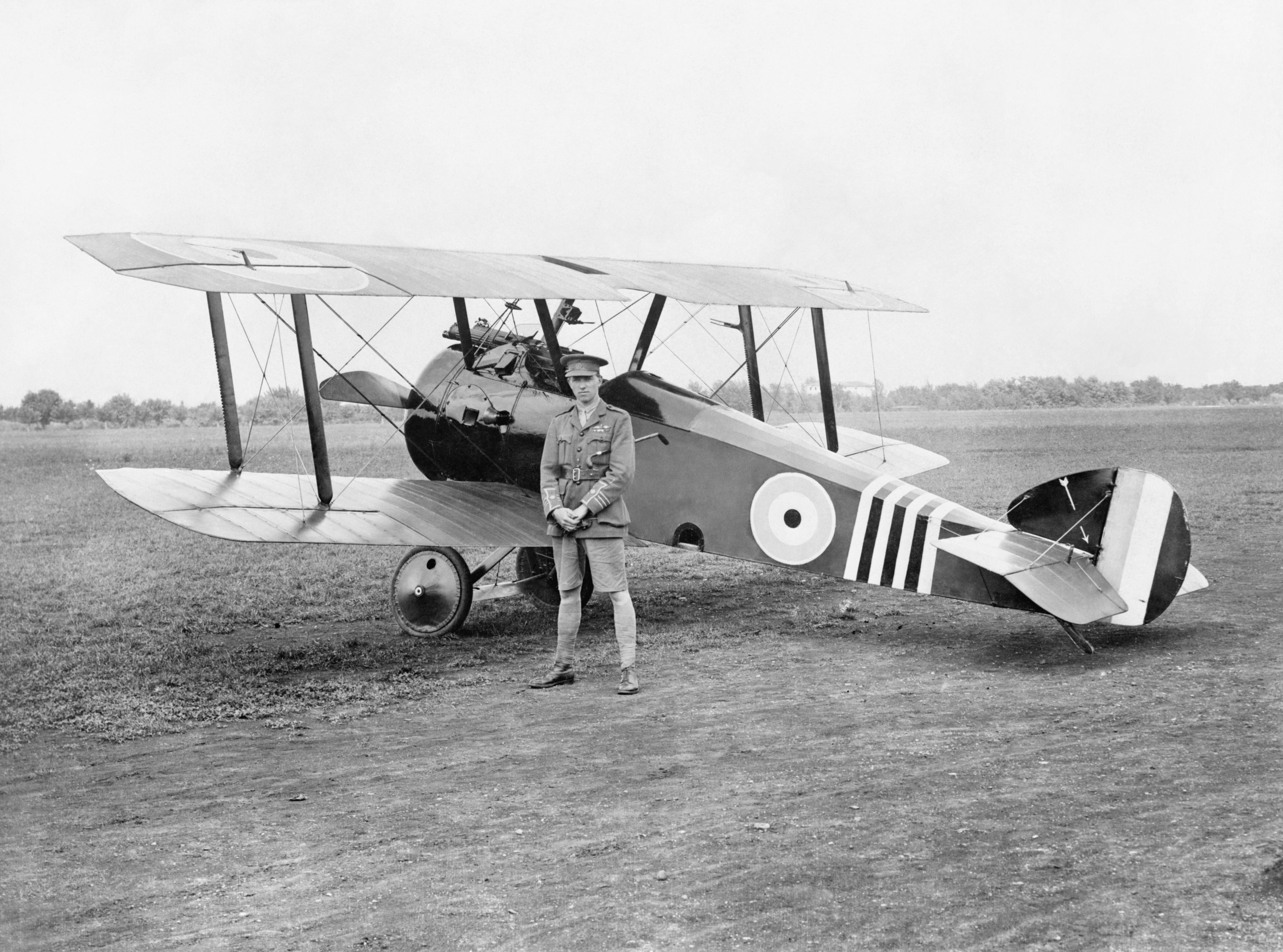 William George Barker (1894-1930), V.C., D.S.O. (with bar), M.C. (with two bars), Croix de Guerre, with the Sopwith Camel in which he shot down part of his total of 52 enemy aircraft. Barker was a Canadian First World War fighter ace and Victoria Cross recipient. He is the most decorated serviceman in the history of Canada, and indeed in the history of the British Empire and Commonwealth of Nations.